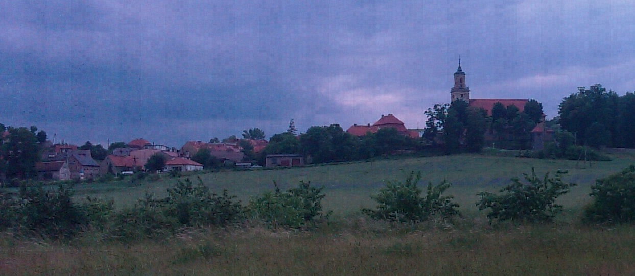 Dobromierz, village in Low Silesia in Poland